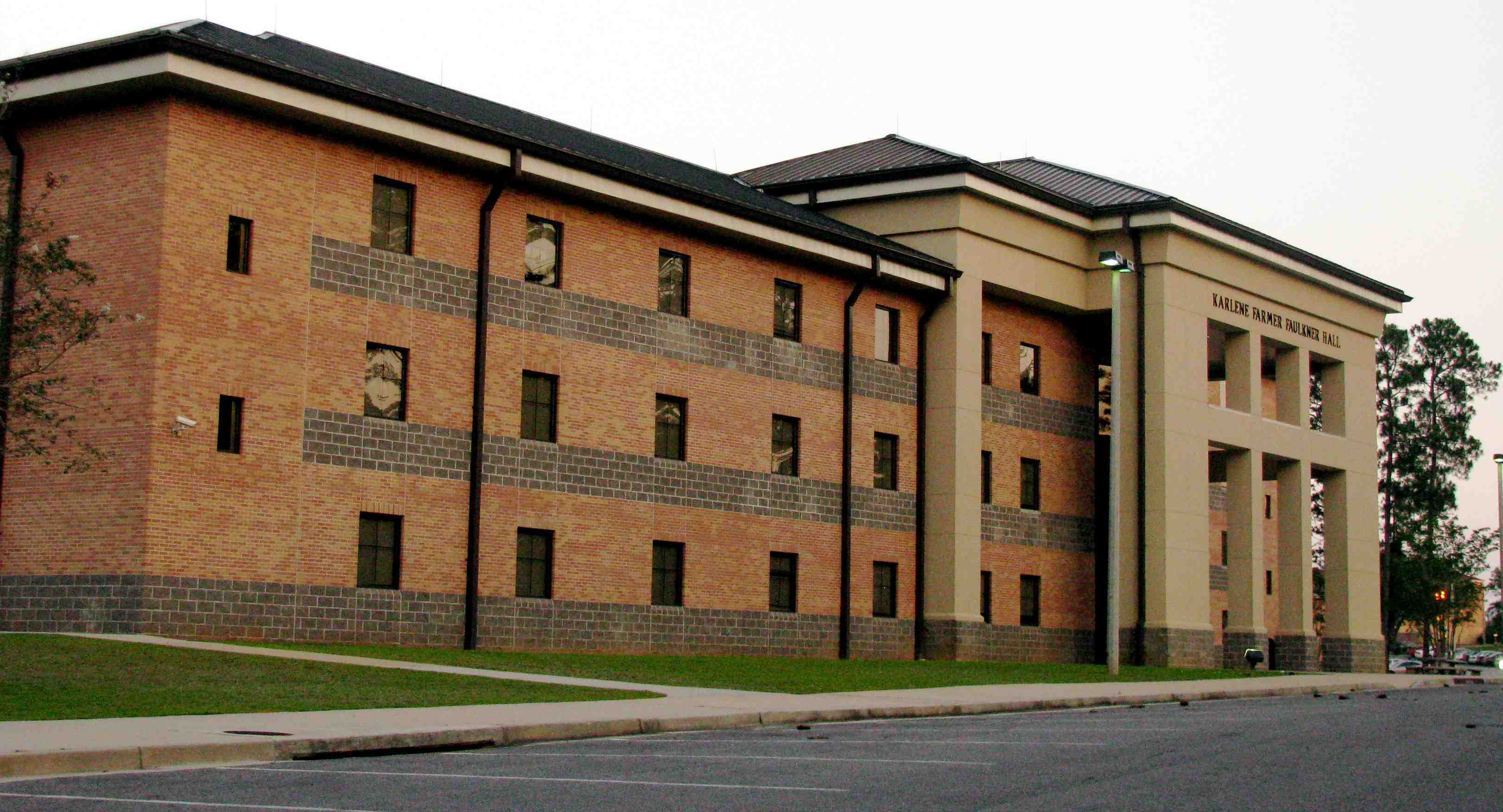 University of Mobile's Faulker Hall